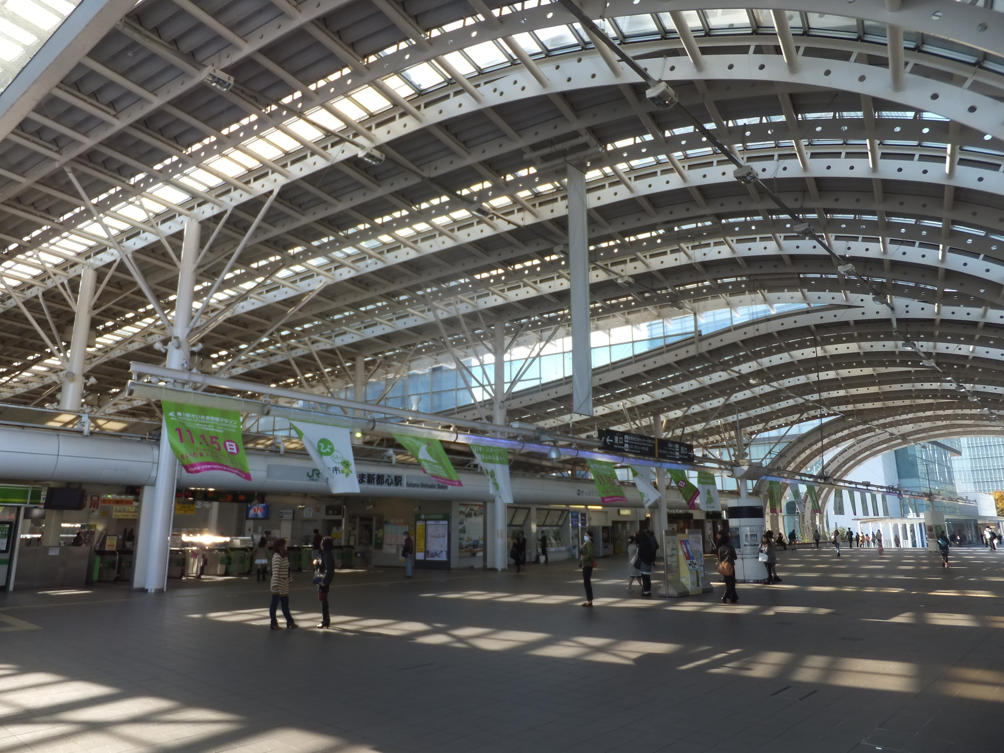 Saitama-Shintoshin Station on the Tohoku Main Line, located in the city of Saitama, Japan